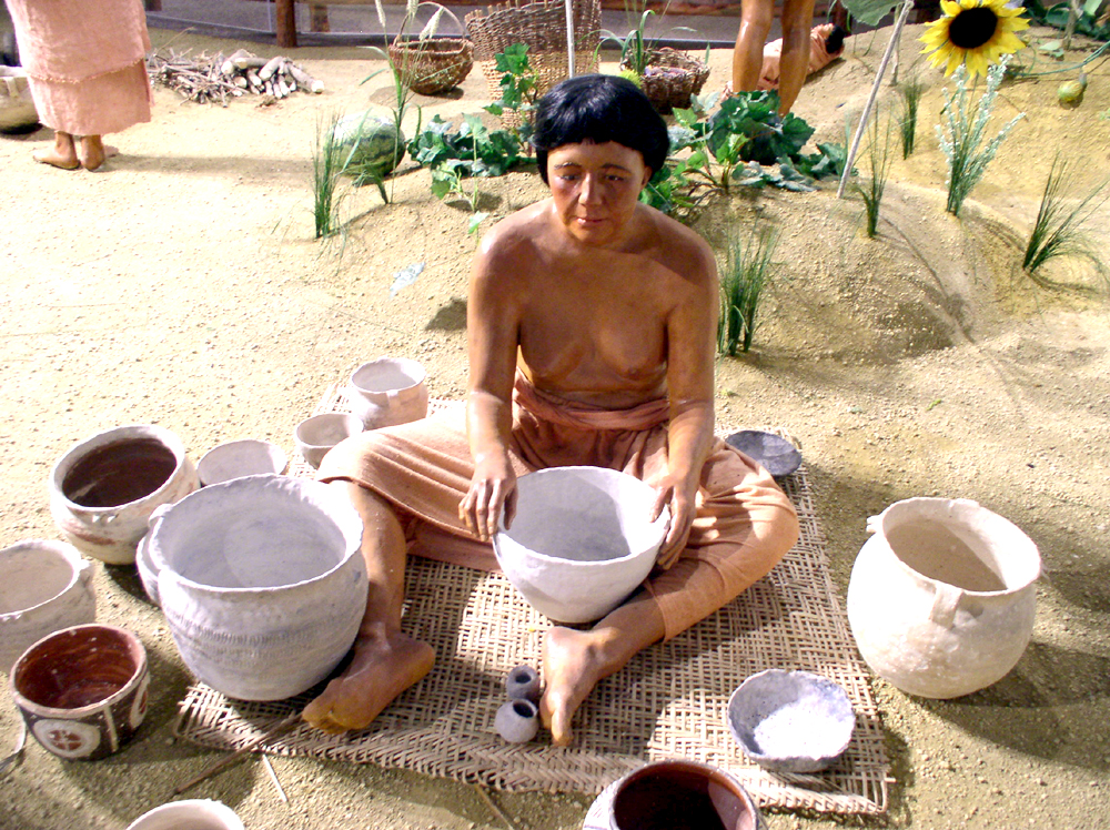 A diorama showing a Mississippian potter from the Angel Mounds site in Evansville, Indiana, a Mississippian culture settlement.